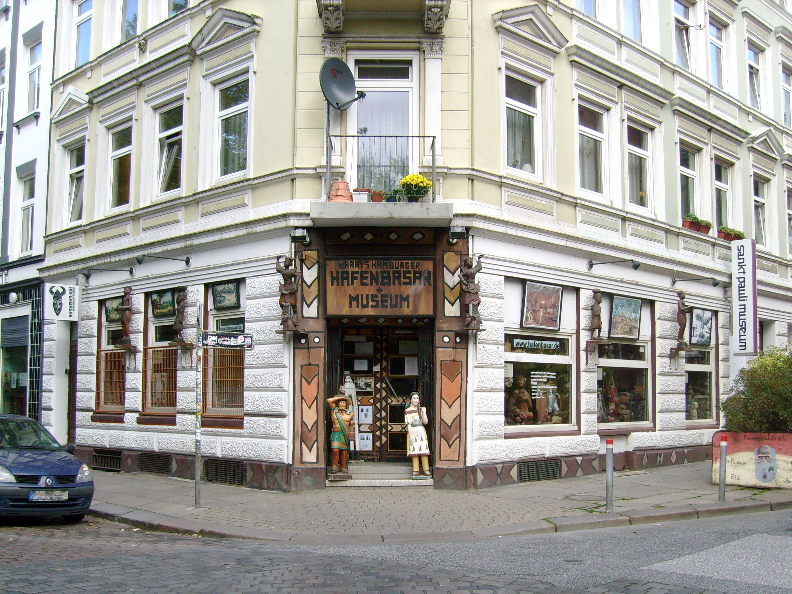 Harrys Hamburger Hafenbasar - an exotics shop of a former sailor, also used as museum. The Hafenbasar is a well known touristic attraction in Hamburg-St. Pauli, Germany.